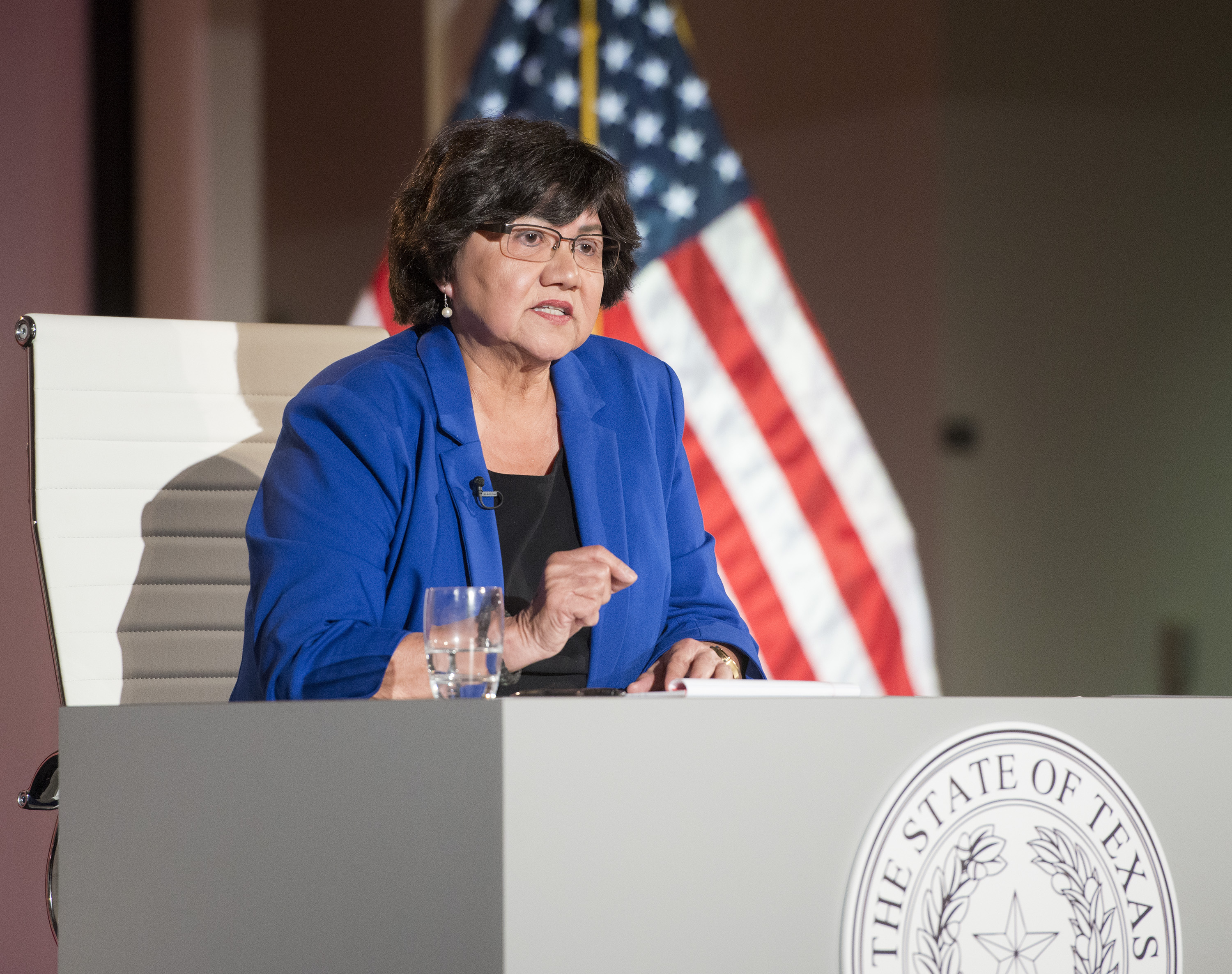 Democratic candidate for governor, Lupe Valdez, speaks at the gubernatorial debate at the LBJ Presidential Library in Austin, Texas.